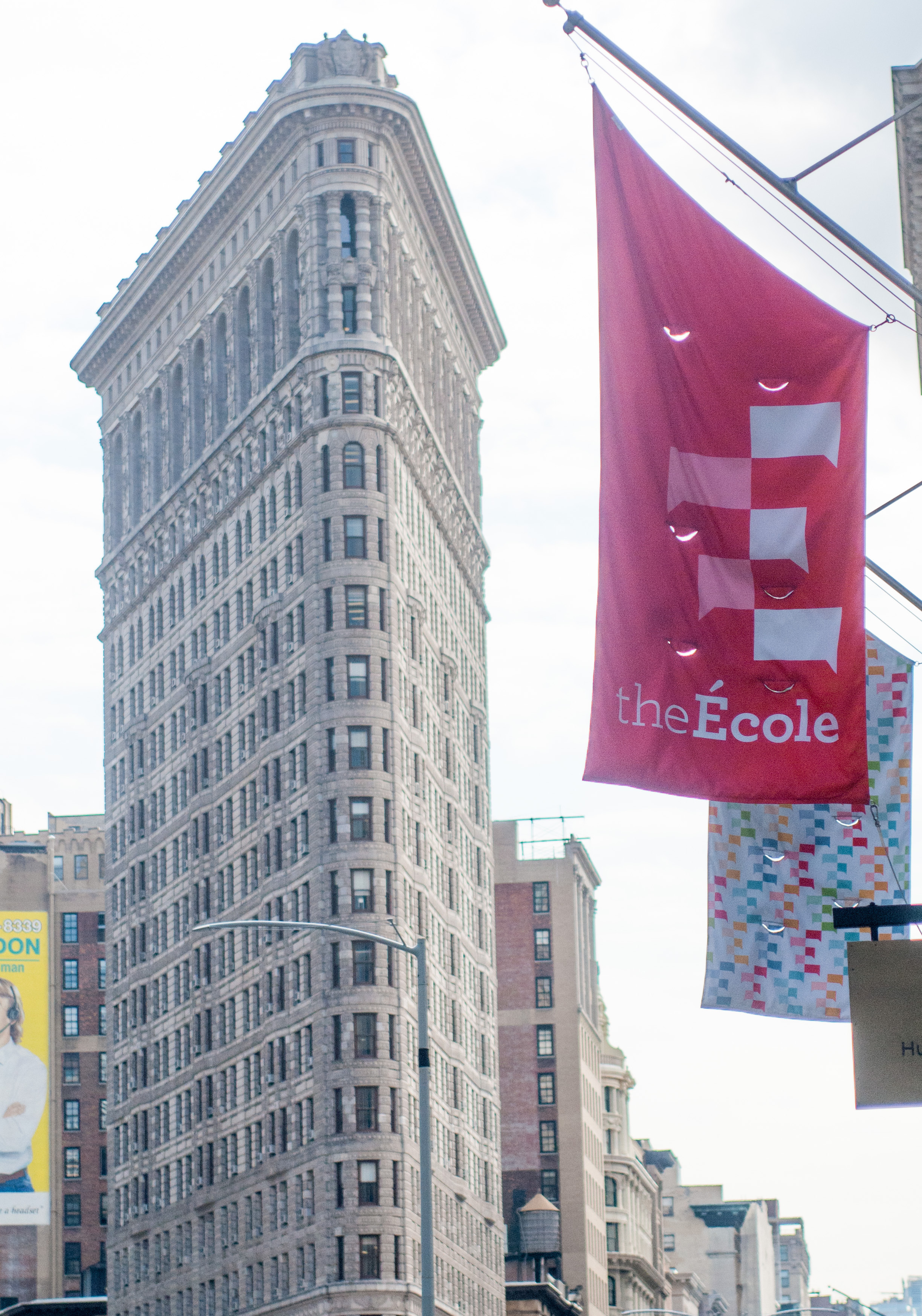 The École, in Flatiron District